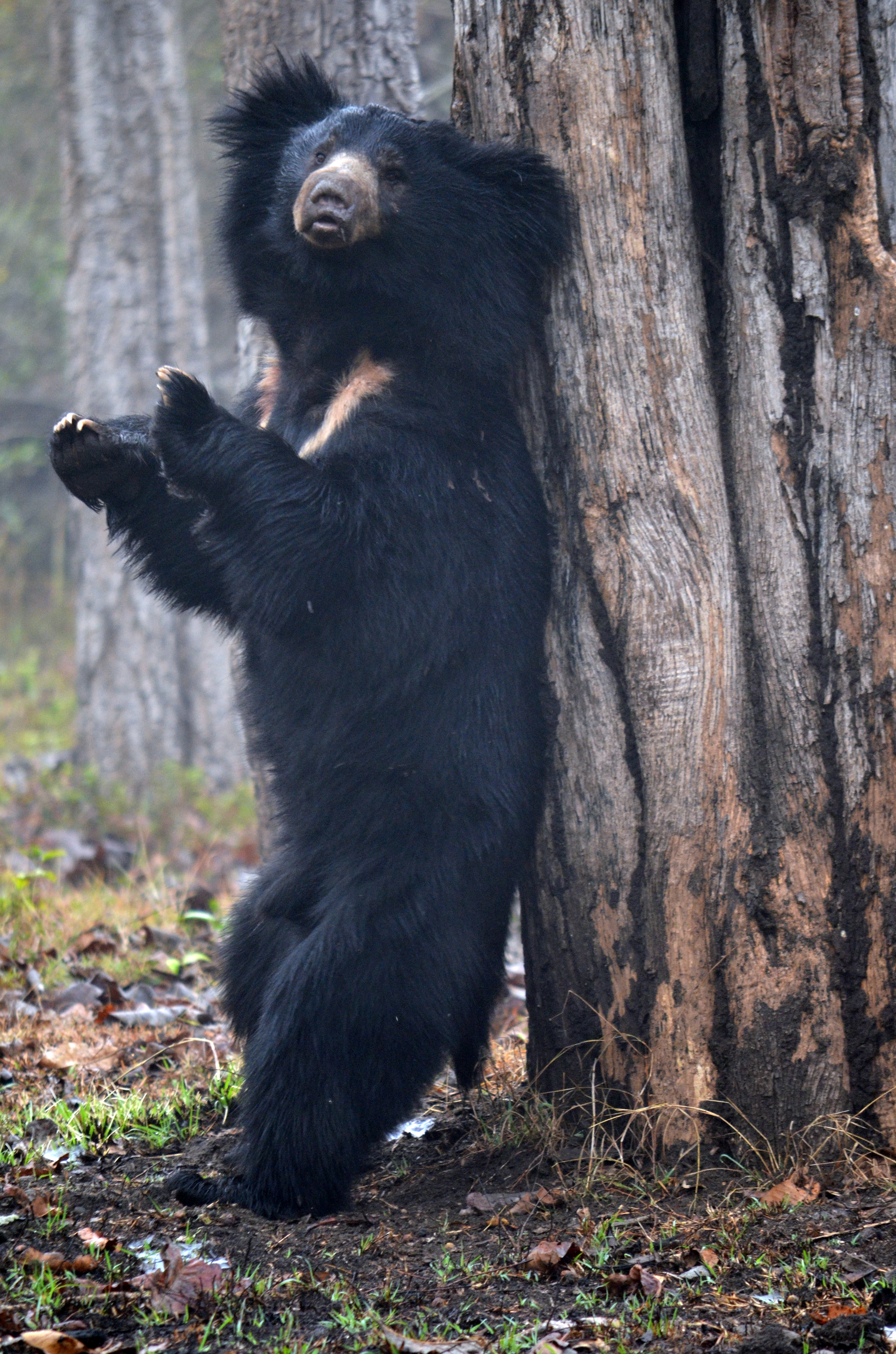 Photographed at Nagarhole Tiger reserve,Karnataka